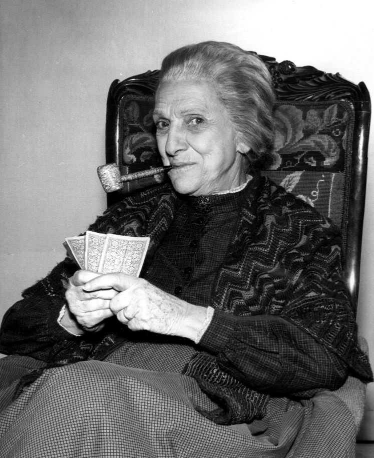 Photo of character actress Beulah Bondi from a guest starring role on the television program Wagon Train.